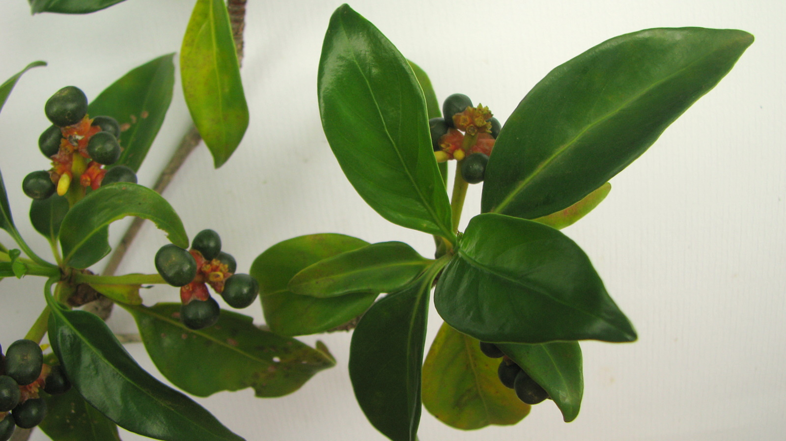 One of the few Rubiaceae with a superior ovary.